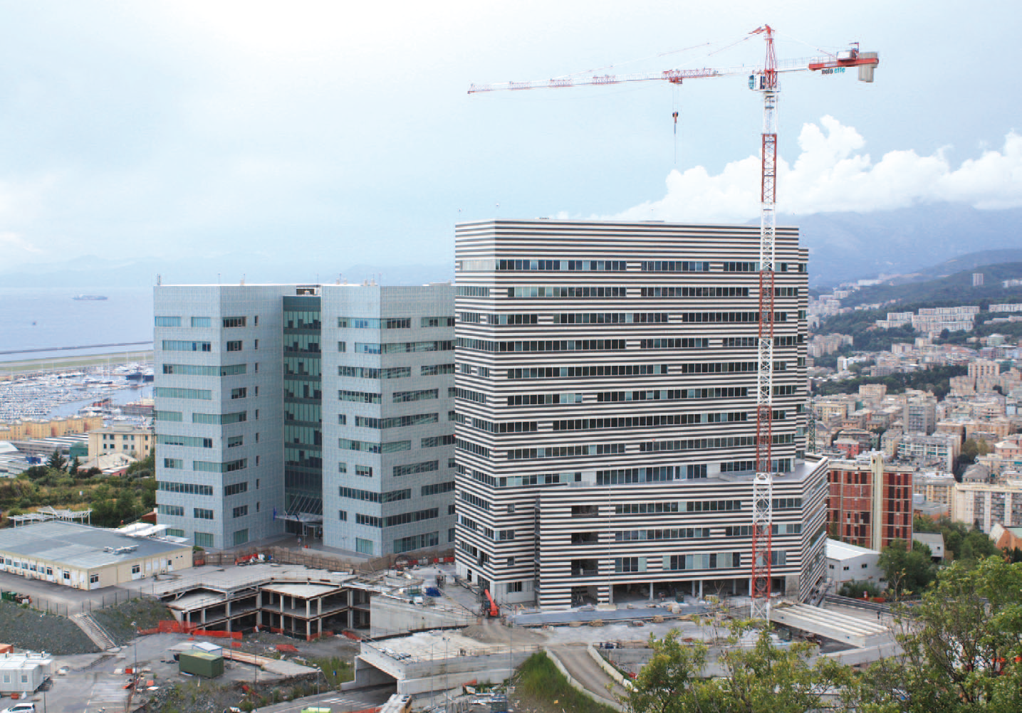 Picture of the skyscrapers in the Erzelli scientific park of Genoa, Italy (October 2013).